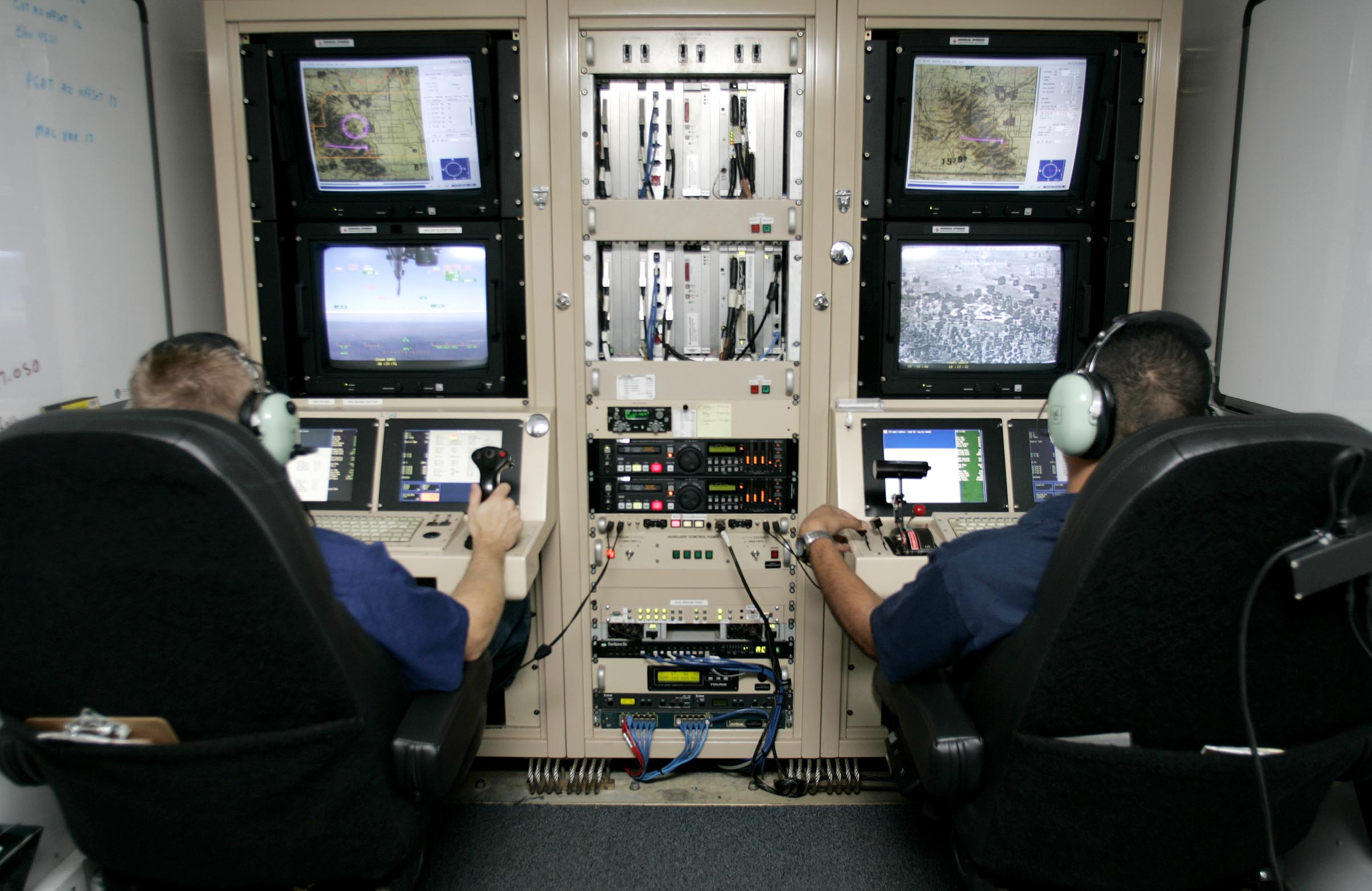 CBP Air and Marine officers control and watch images taken by Unmanned aerial vehicles (drones) of the CBP. This surveillance provides information concerning illegal activities taking place in remote areas to Border Patrol agents.